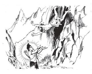 Ramdas swami